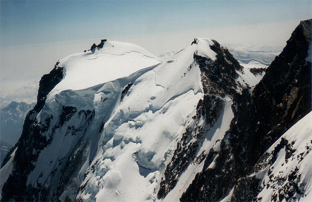 Signalkuppe (4559m, left) and Zumsteinspitze (4563m, middle) with a bit of Dufourspitze (Monte Rosa, 4634m, right) as seen from Nordend (4609m); swiss-italien border, alps